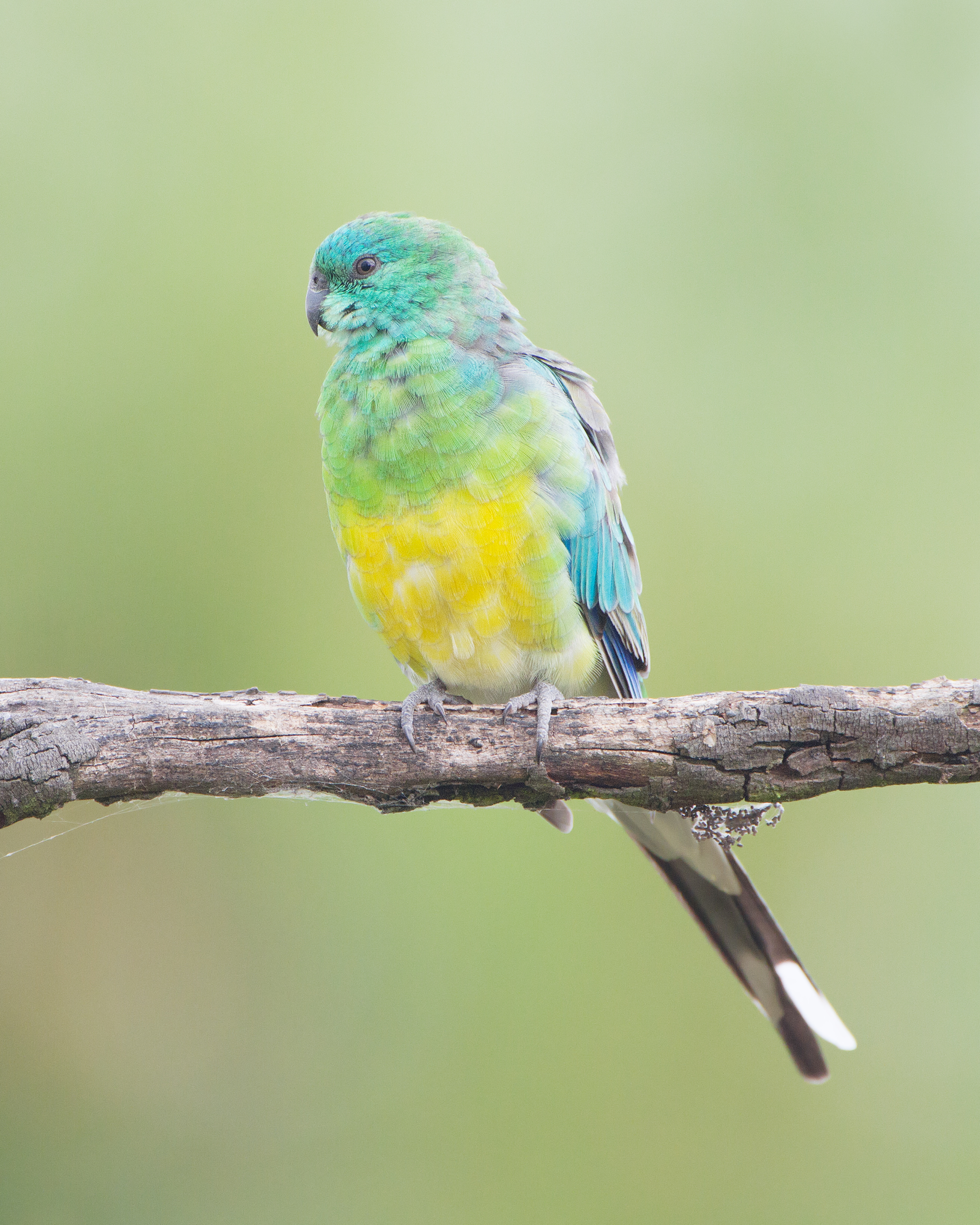 Red-rumped Parrot (Psephotus haematonotus), Jerrabomberra Wetlands, Australian Capital Territory, Australia